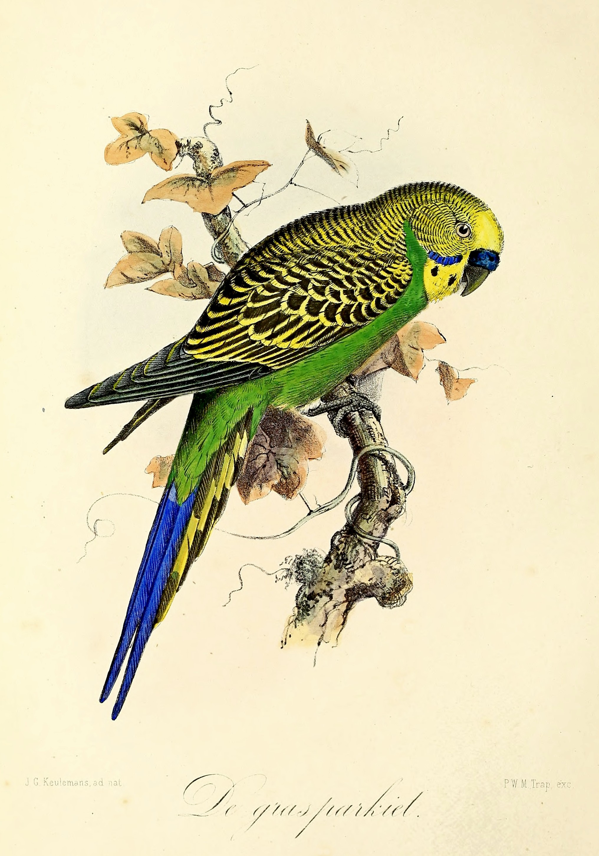 « Euphema undulata » = Melopsittacus undulatus (Budgerigar)